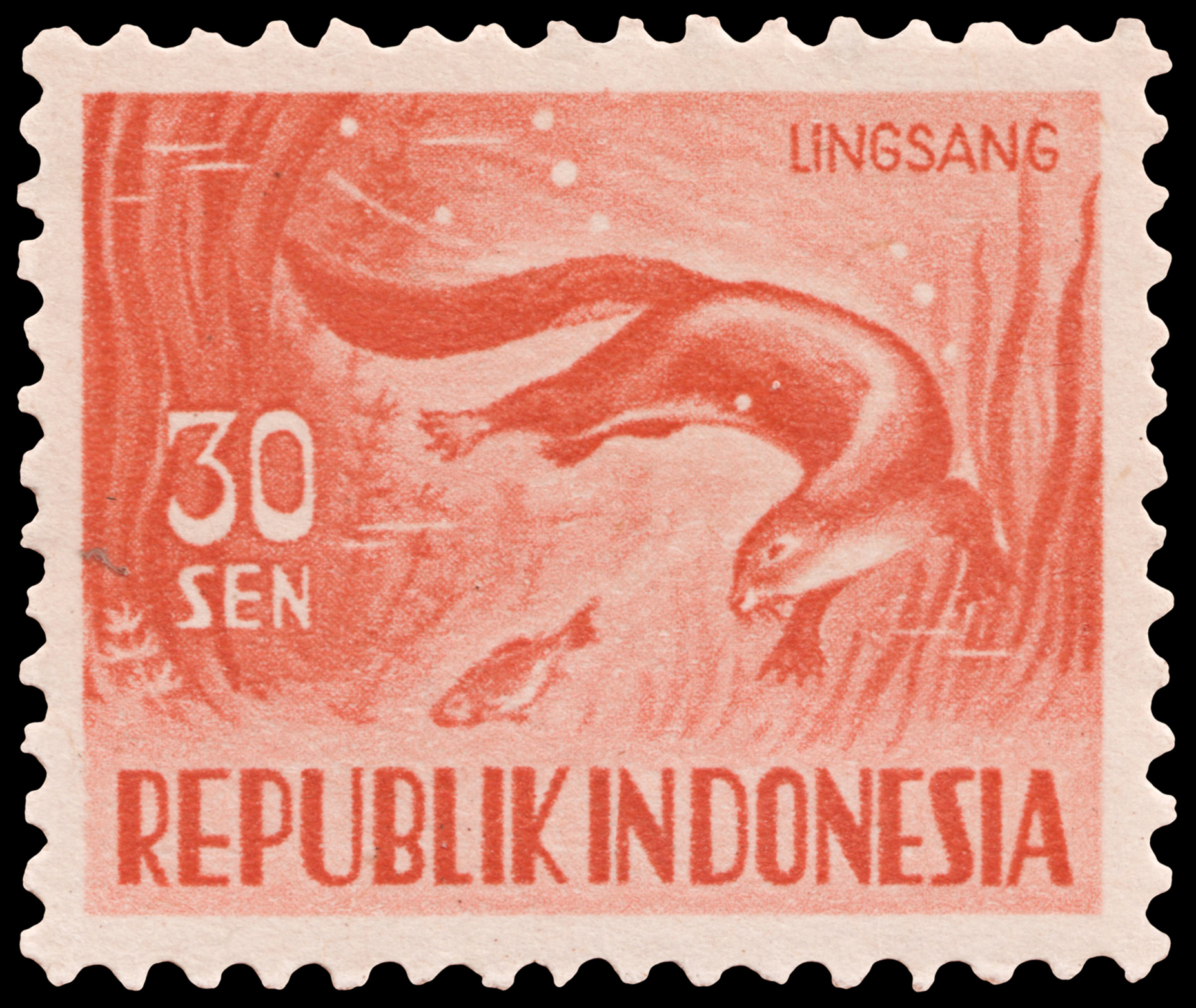 Lingsang, 30sen (1953)